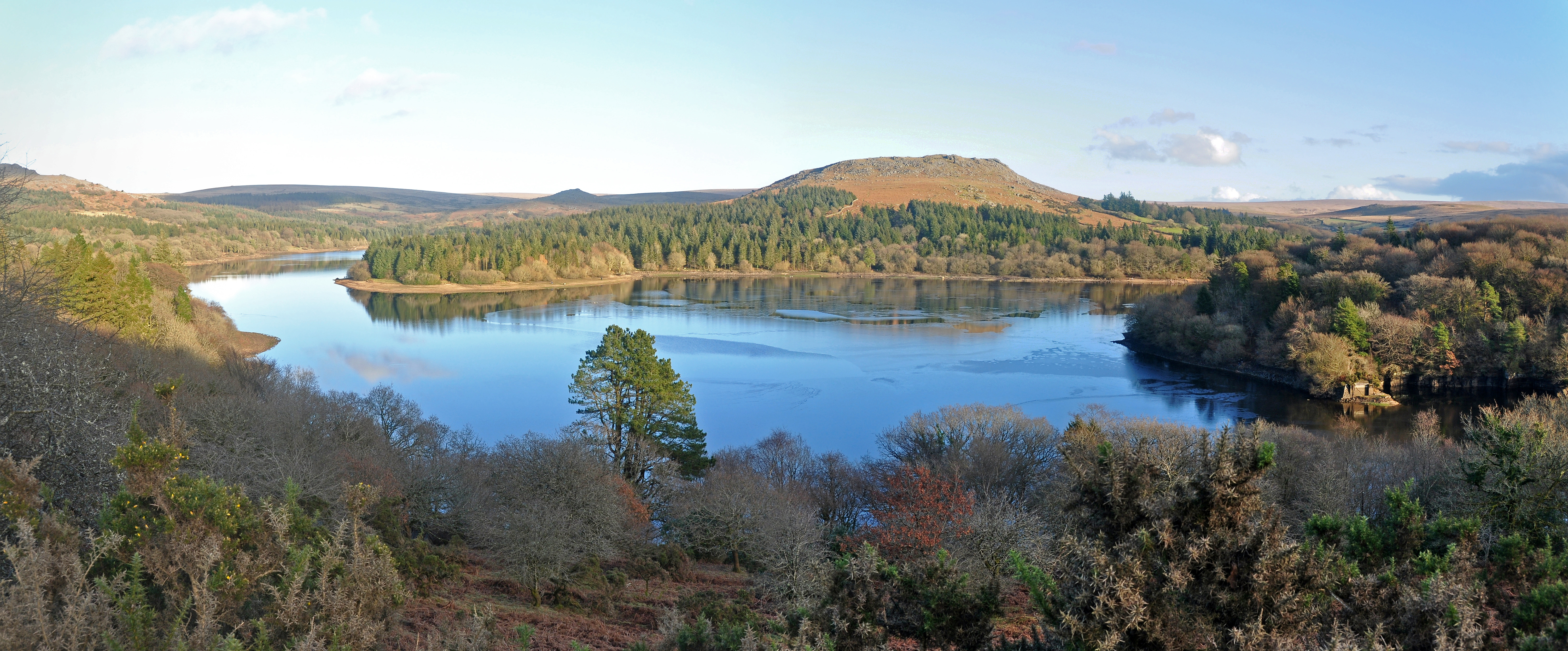 Burrator reservoir on Dartmoor, on an icy day in January 2011